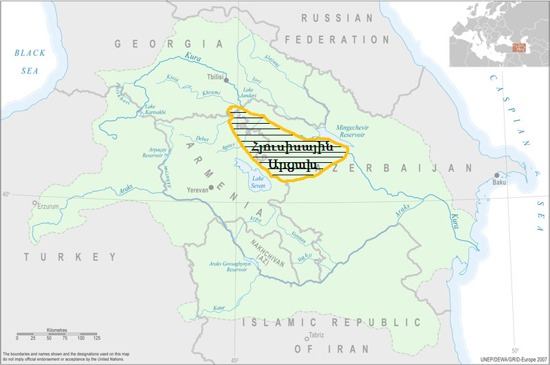 Northern Artsakh map on armenian